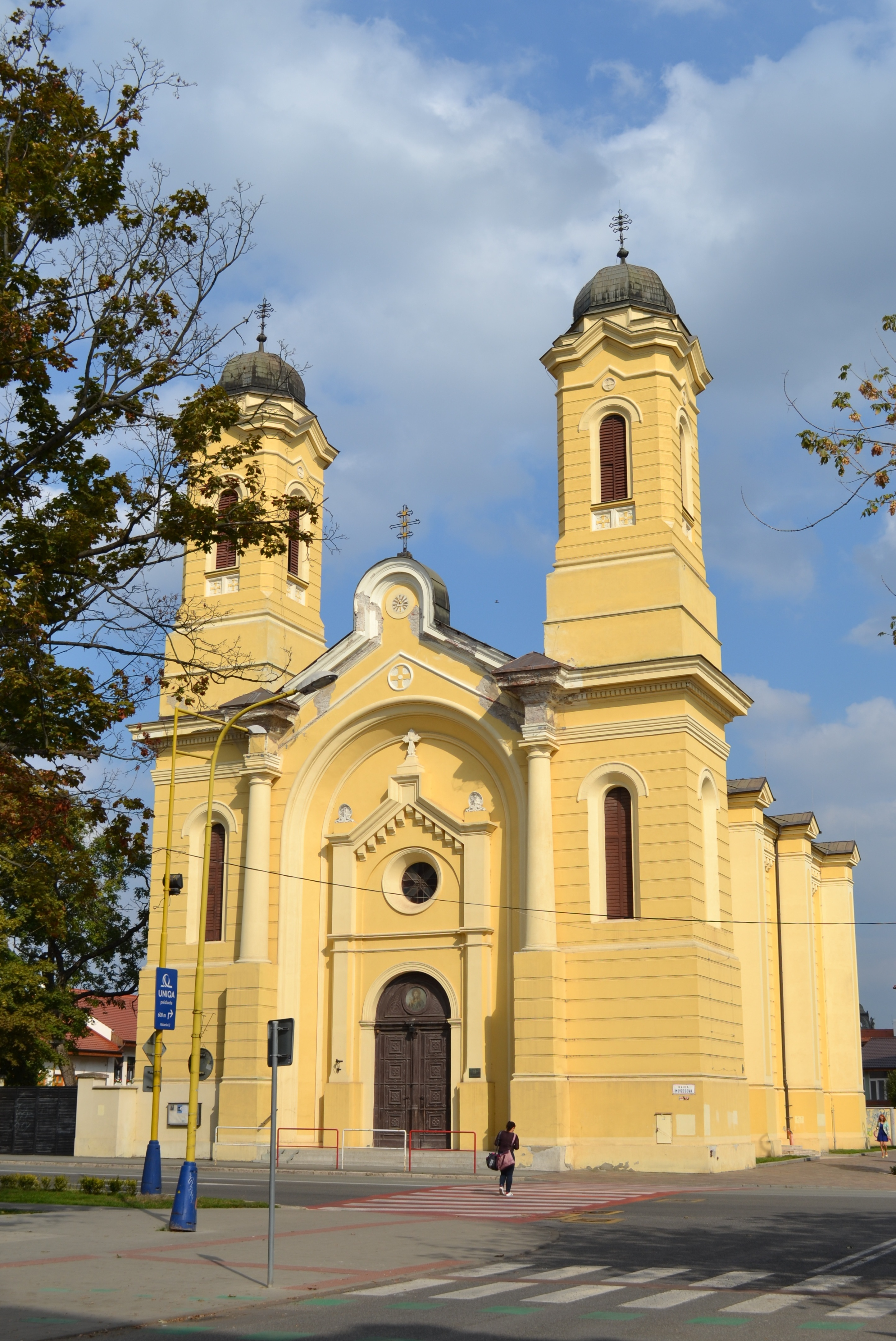 Greek-Catholic Cathedral of Virgin Mary's Birth in KošiceSlovenčina: Gréckokatolícka katedrála Narodenia presvätej Bohorodičky v Košiciach